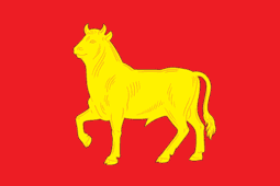 Kuibyshev (Novosibirsk oblast), flag